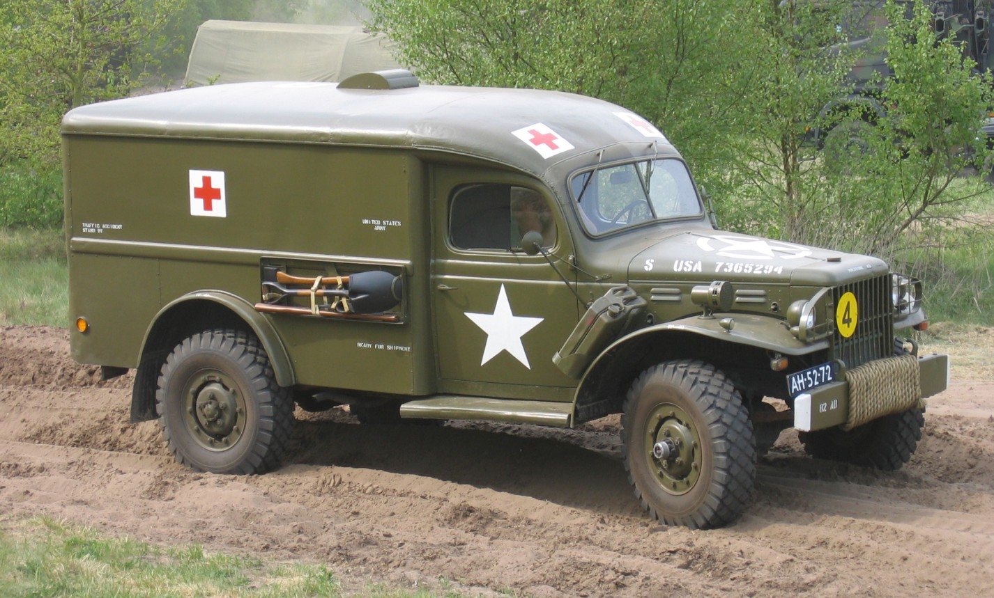 Dodge T214-WC54 Ambulance